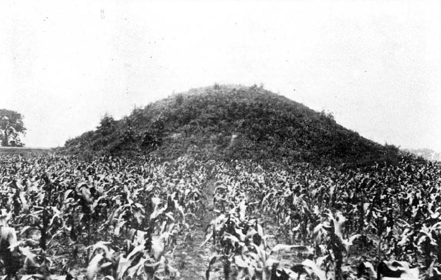 Pre-excavation view of the Adena Mound, located in Chillicothe, Ohio, United States, northwest of downtown. The type site for the Adena culture, the site is listed on the National Register of Historic Places, even though the mound was removed decades ago.